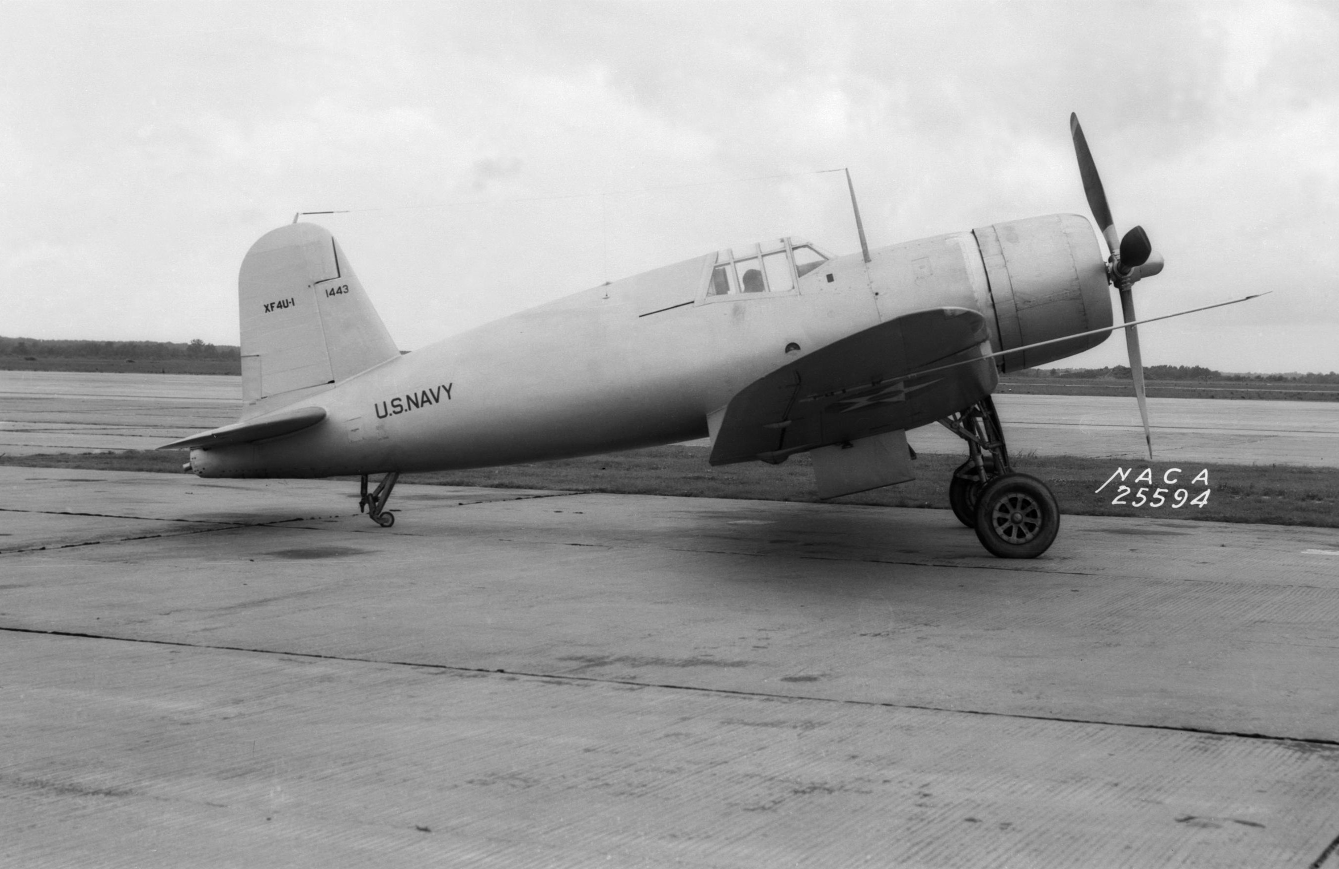 The Chance Vought XF4U-1 Corsair prototype (BuNo 1443) during tests at the National Advisory Committee for Aeronautics (NACA), Langley Research Center at Hampton, Virginia (USA), in 1940-41.